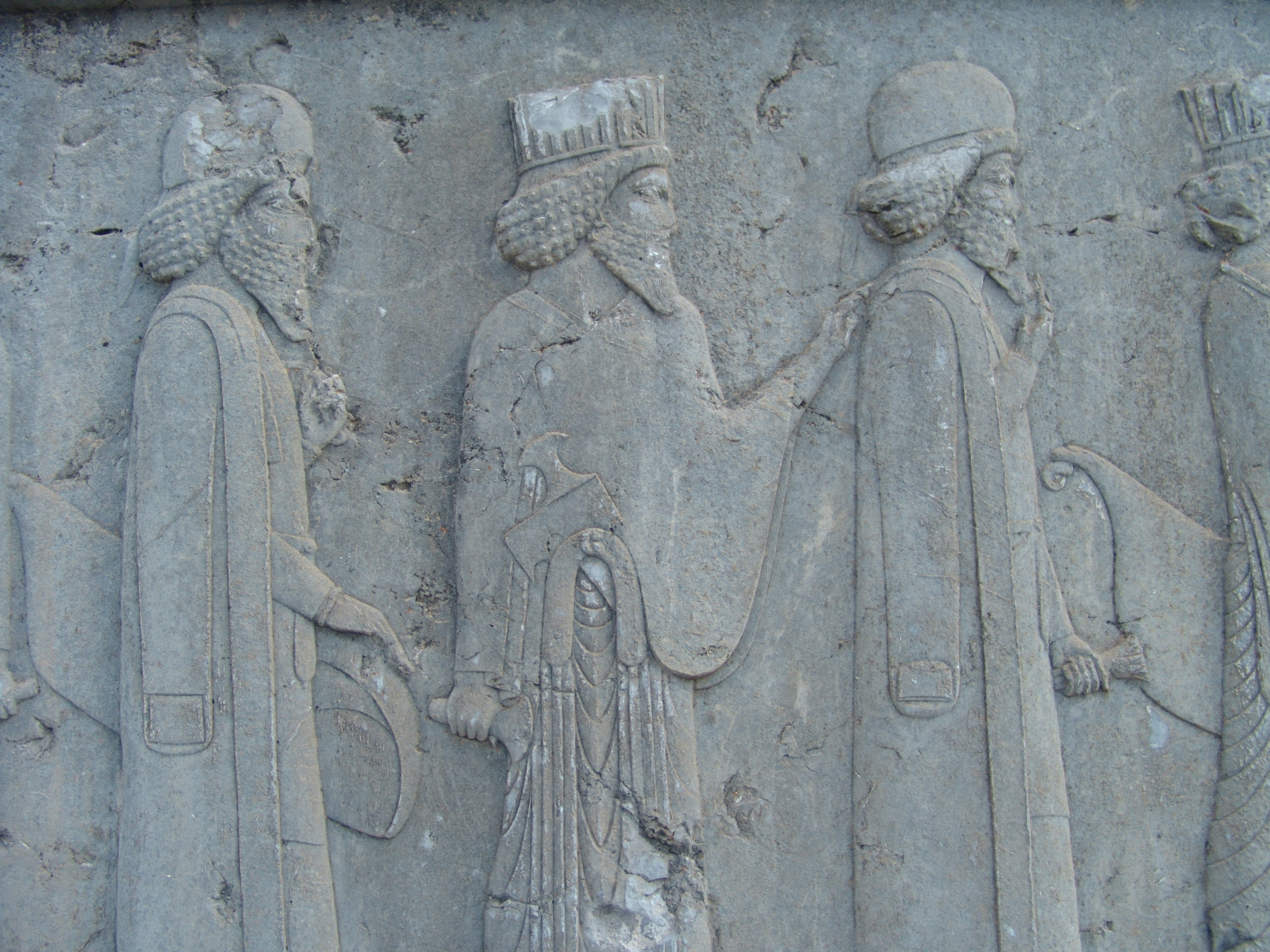 Persepolis